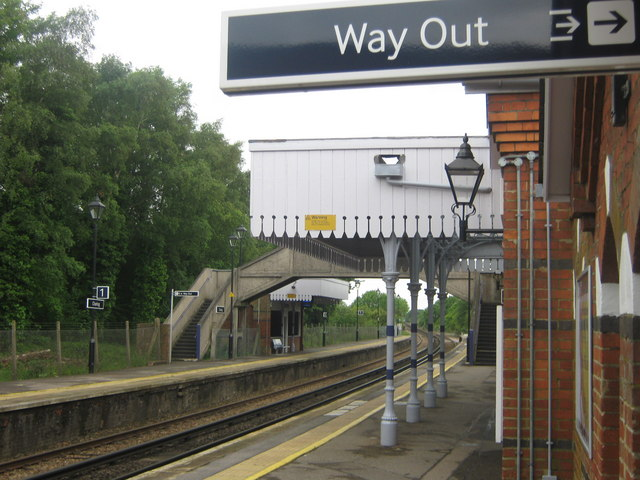 Charing railway station Original description: Charing Railway Station Platforms Platform 1 (on the otherside) heads right to Lenham, and other stations to Maidstone and London. Platform 2 is for Ashford and Folkestone bound trains.